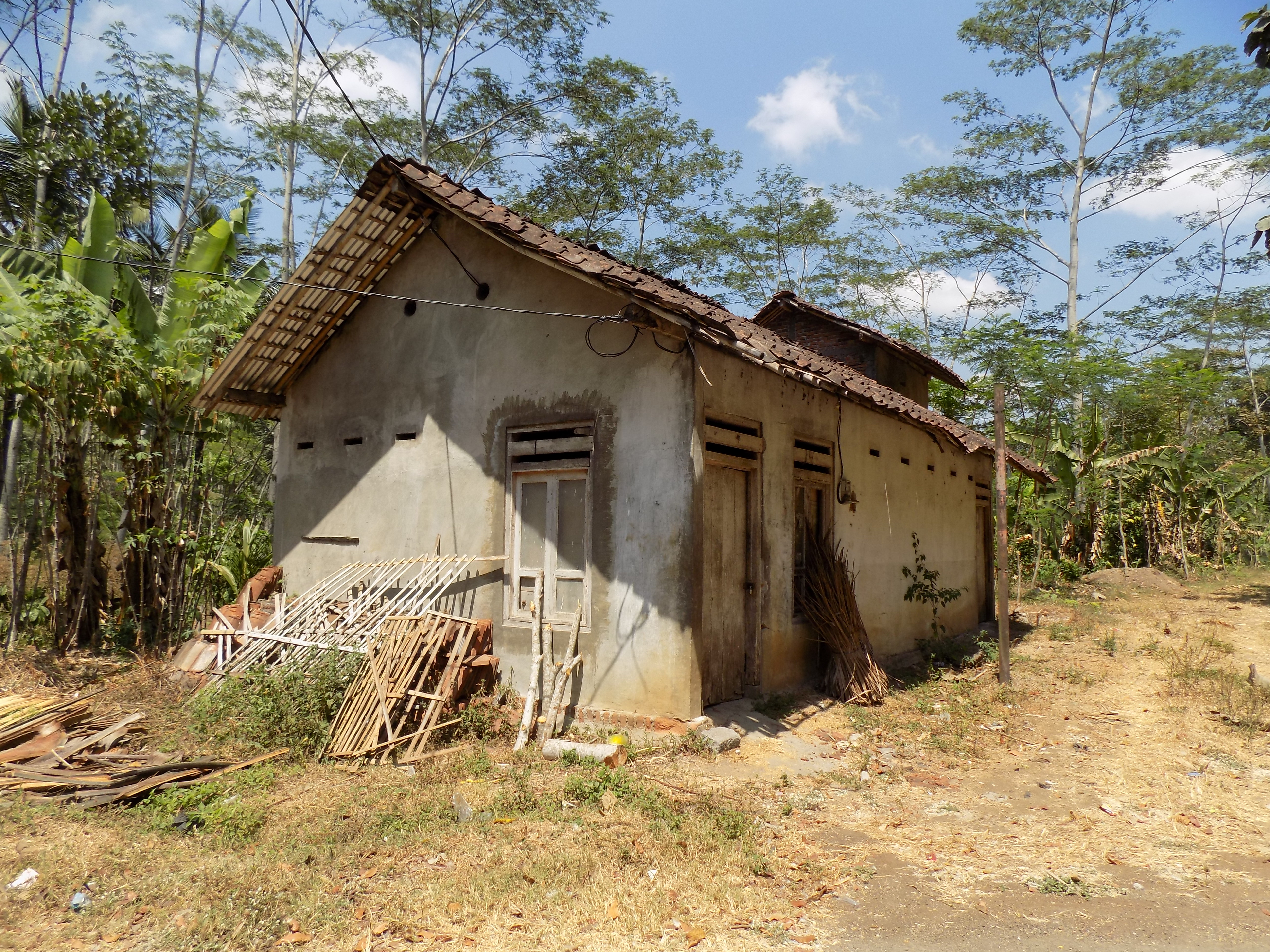 Gemawang Station which has now become a warehouse